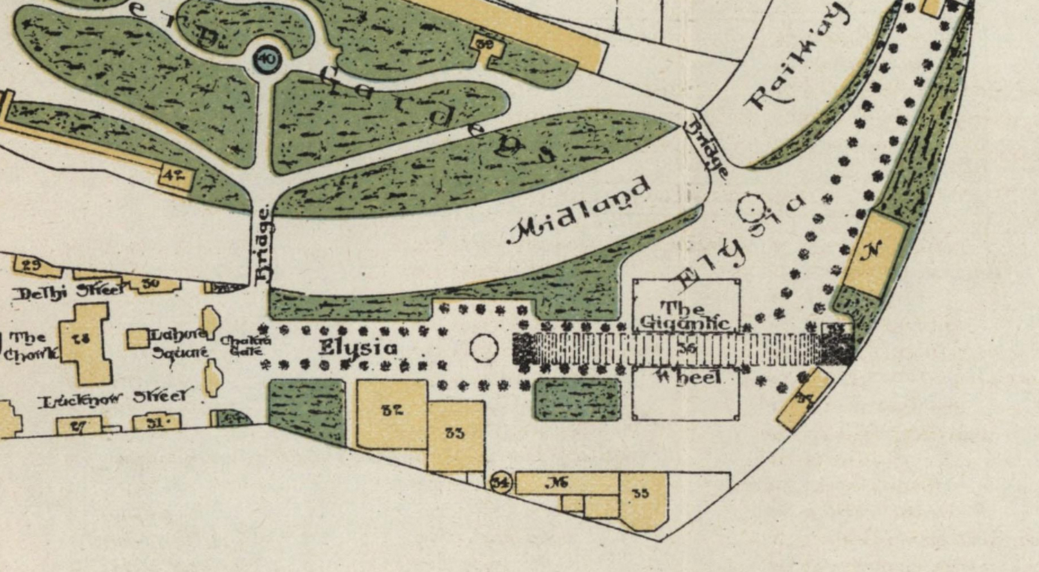 Detail plan of the Empire of India Exhibition, 1895 by Imre Kiralfy